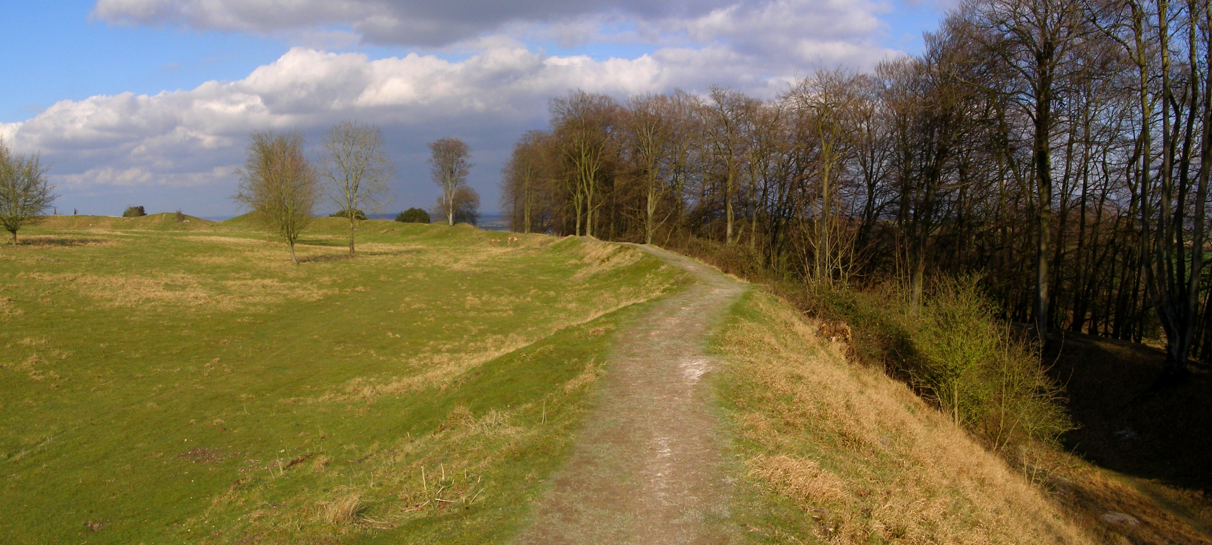 Atlas of Hillforts 3828 Danebury